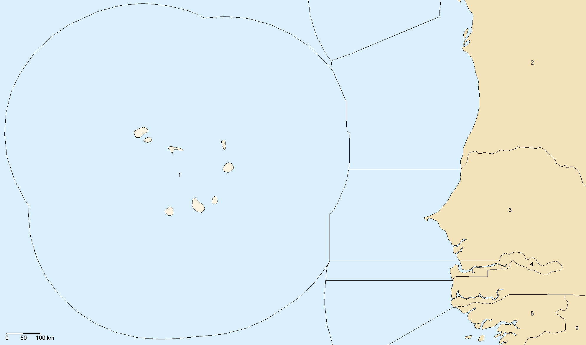 Boundaries of Cape Verde's Exclusive Economic Zone. Own work using data from VLIZ Maritime Boundaries Geodatabase Legend Cape Verde Mauritania Senegal Gambia Guinea-Bissau